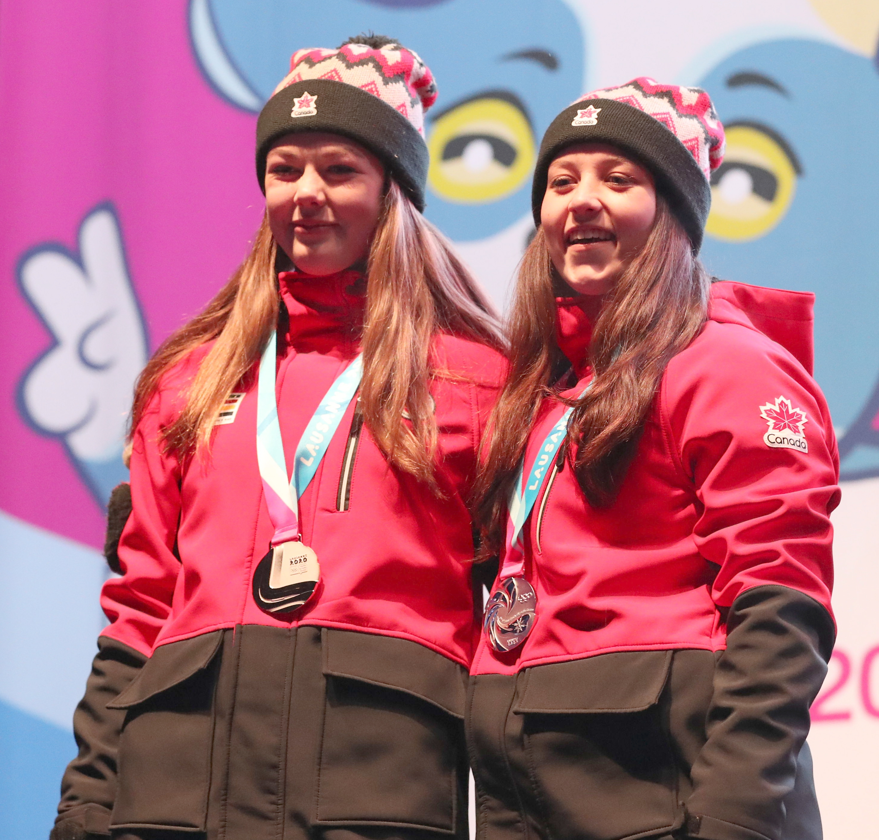 Medal Ceremony Day 9 in St. Moritz, 2020 Winter Youth Olympics in Lausanne